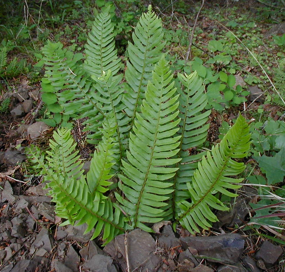 Western Sword Fern (Polystichum munitum) growing in the Columbia River gorge